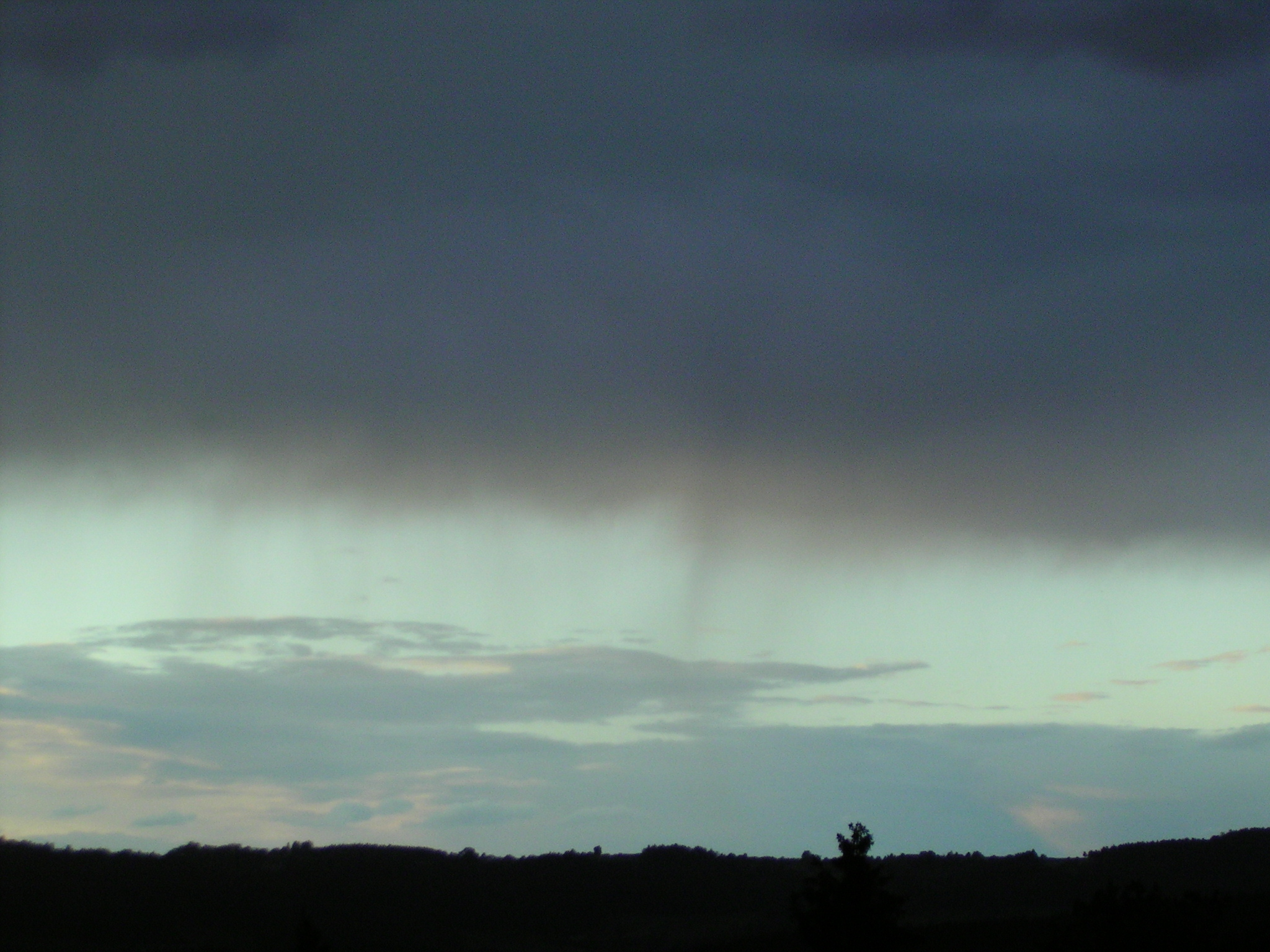 Nimbostratus, not raining yet.